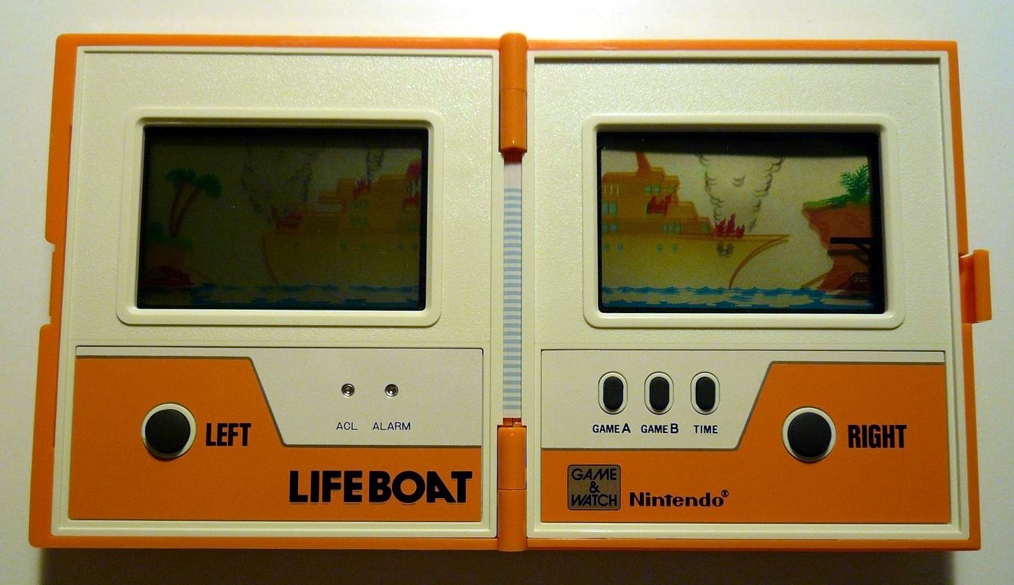 Life Boat - Game&Watch - Nintendo